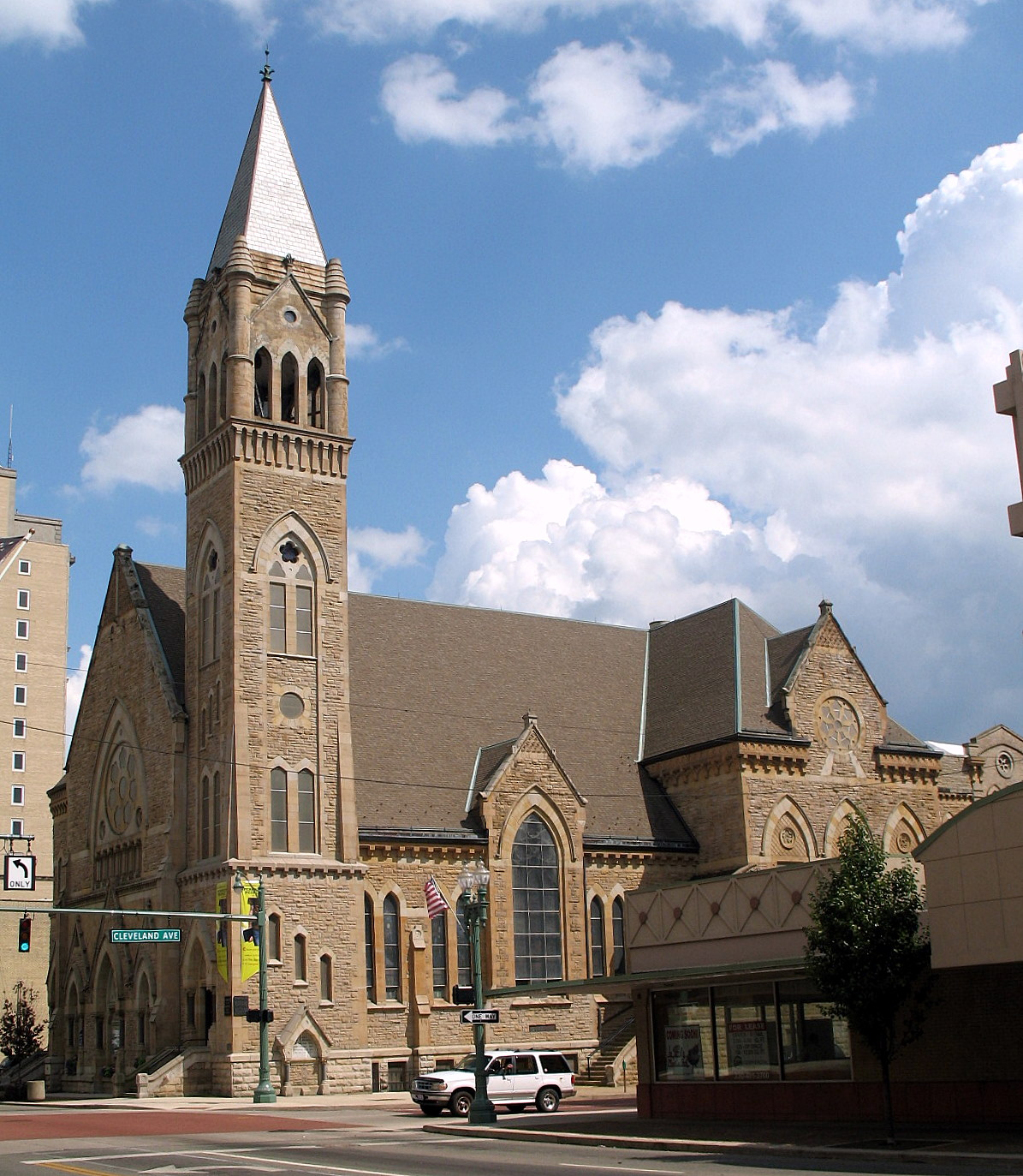 National Register of Historic Places listings in Stark County, Ohio First Methodist Episcopal Church, 120 Cleveland Ave., SW, Canton, Ohio. Home church of William McKinley. Now known as Church of the Savior.